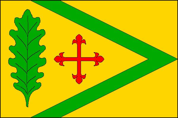 Municipal flag of Kněždub village, Hodonín District, Czech Republic.